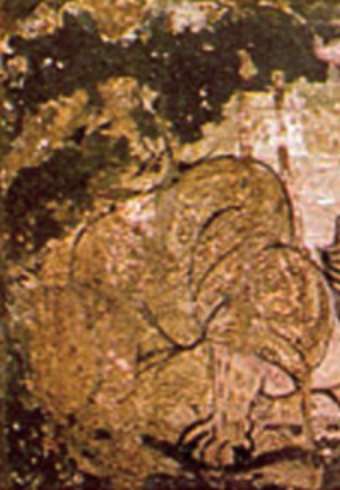 Emperor Gao of Han